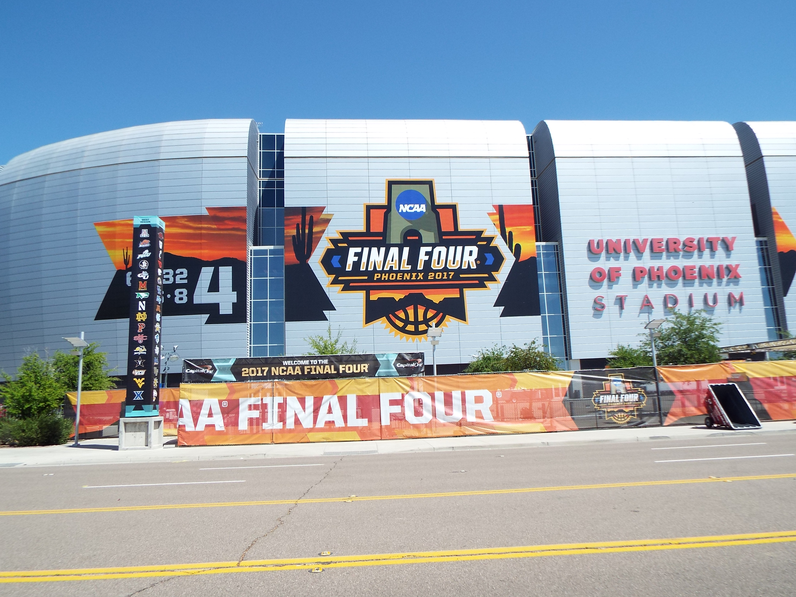 The University of Phoenix Stadium in Glendale, Az. where the NCAA Final Four was played in 2017.